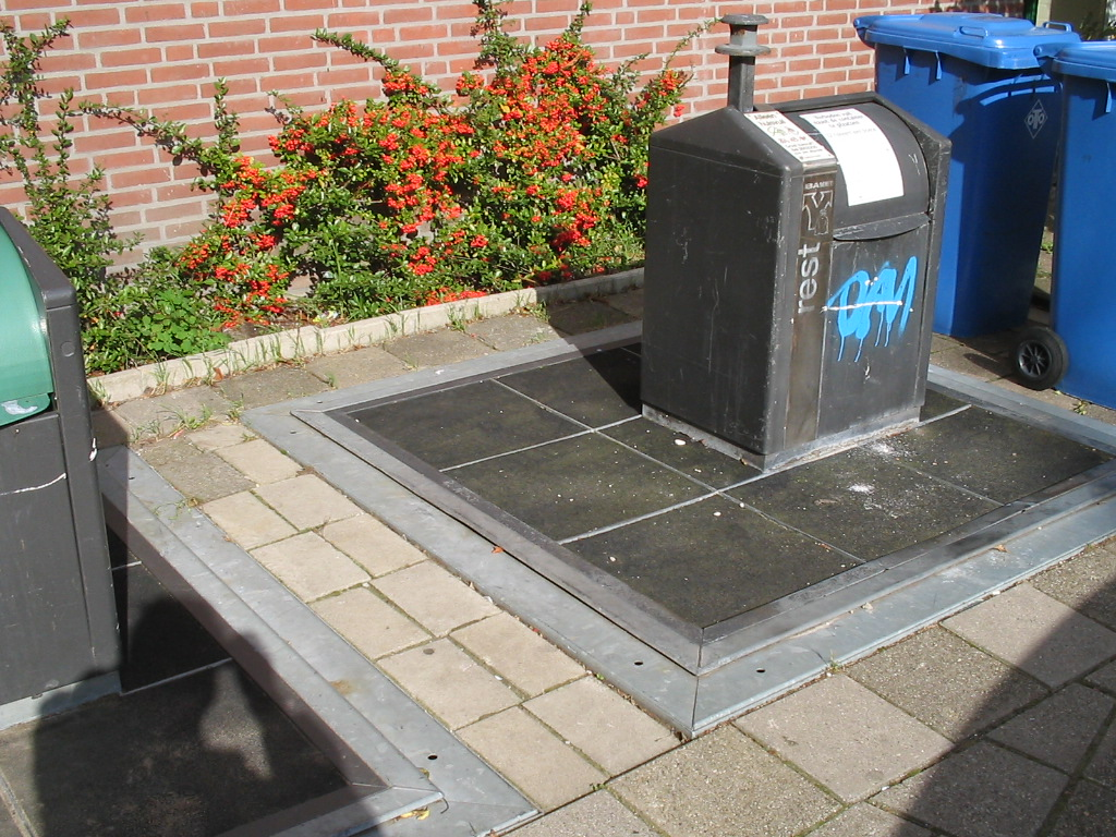 Underground refuse container.